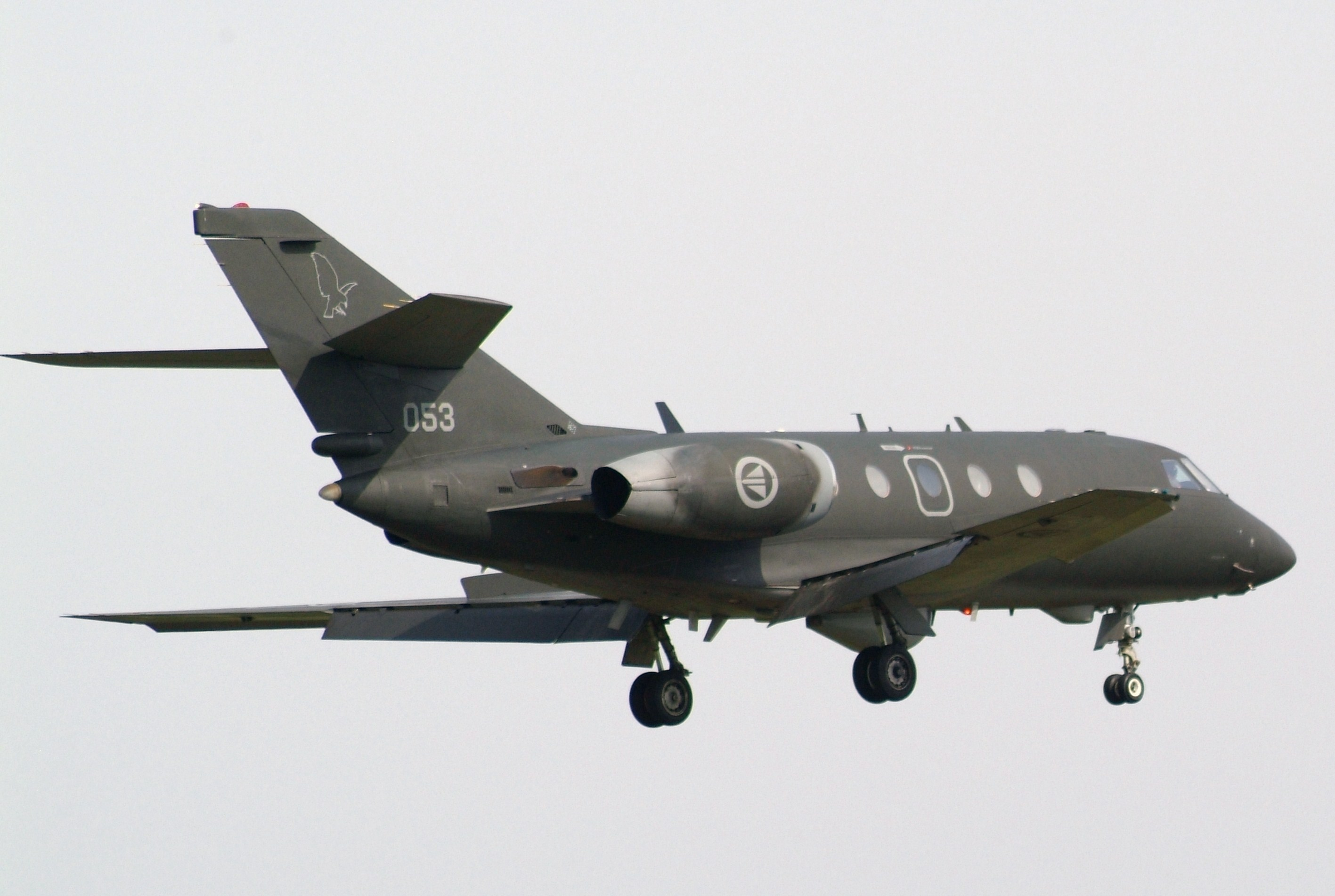 of FEKS 717 Skv. Royal Norwegian AF